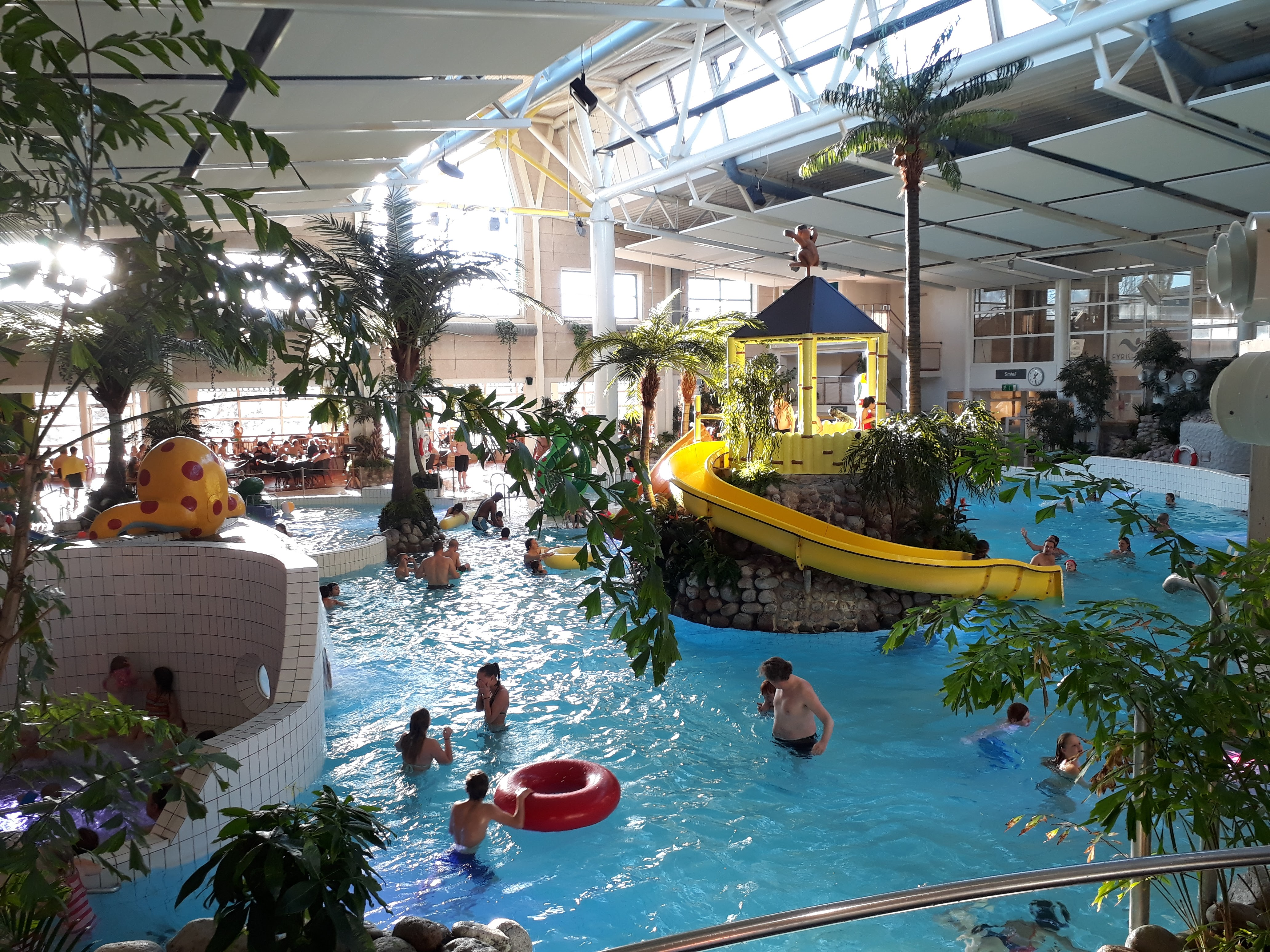 Adventure bath of Fyrishov, Uppsala, Sweden